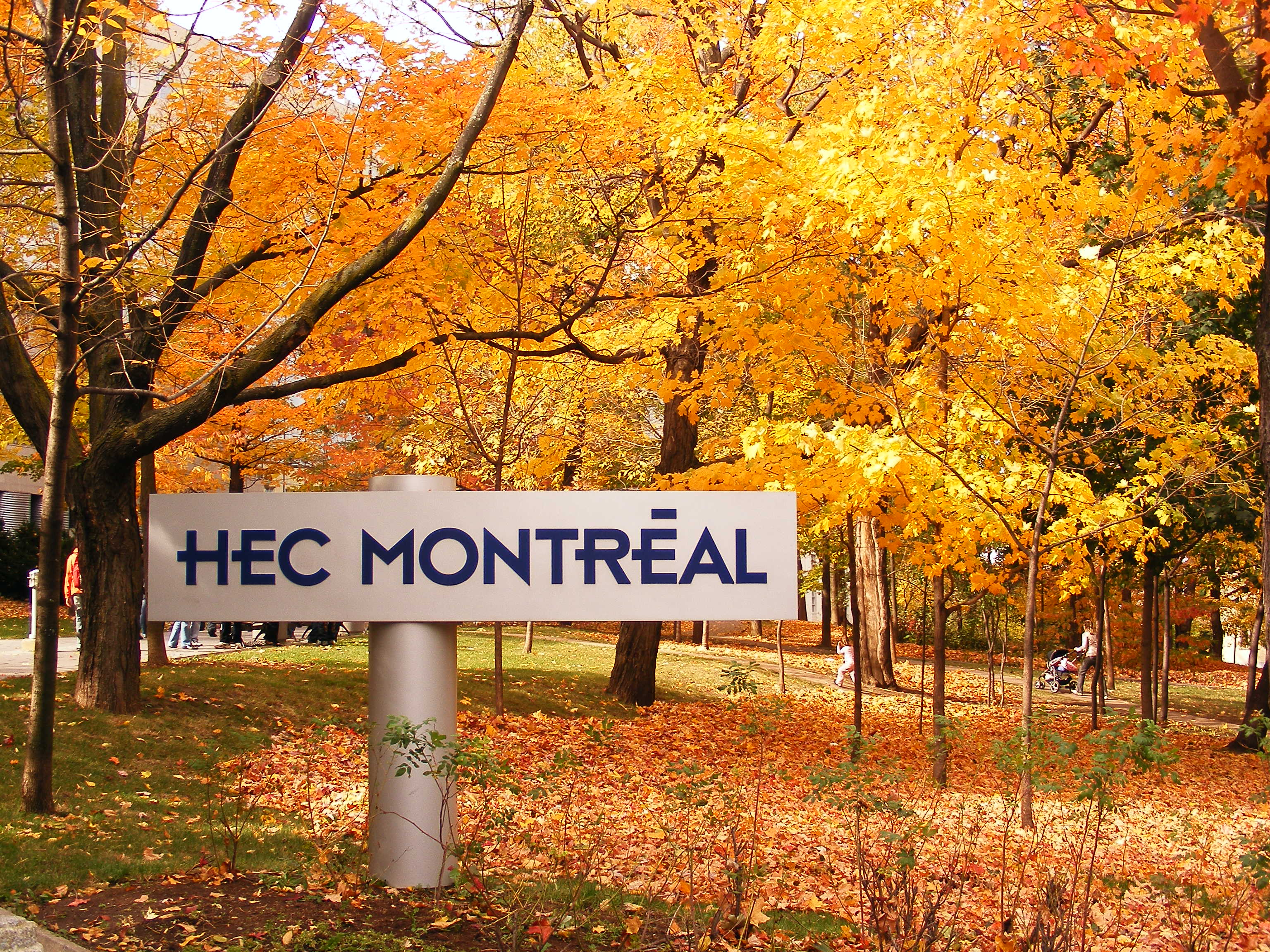 Entrance board